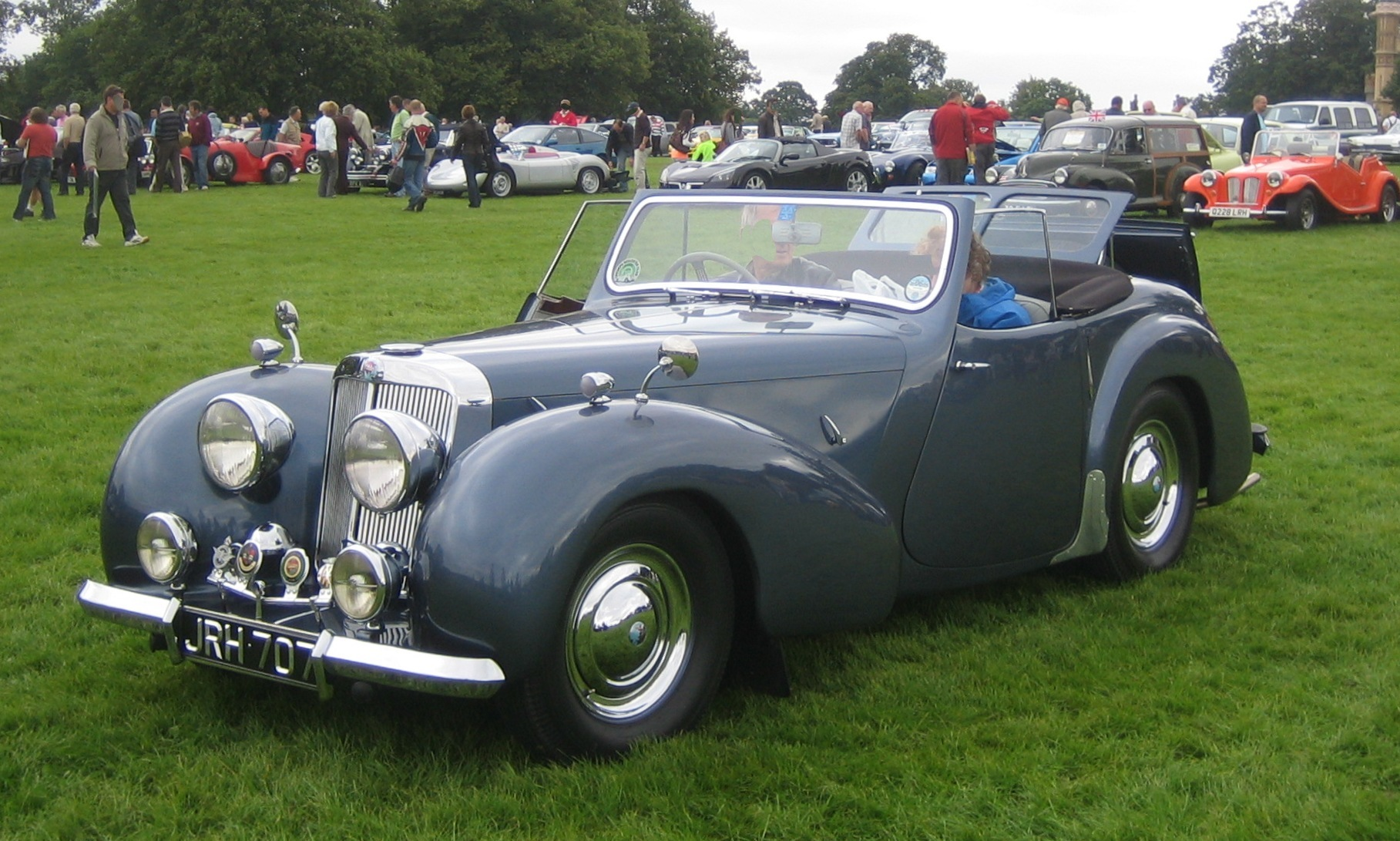 Triumph Roadster at Classic Car Show in Hertfordshire. A feature of the model was the 'dickey seat' in the boot / trunk which in this example is more than usually evident because of the raising of the screen designed to protect the faces of those seated in the back According to the accessible piece of the database maintained by the UK tax office the car has an engine capacity of 1776cc and was manufactured in 1948: it was first registered in the UK in 1995. If that date information is correct, then presumably the car was initially registered and spent it's early decades in another right hand drive country such as South Africa or Australia